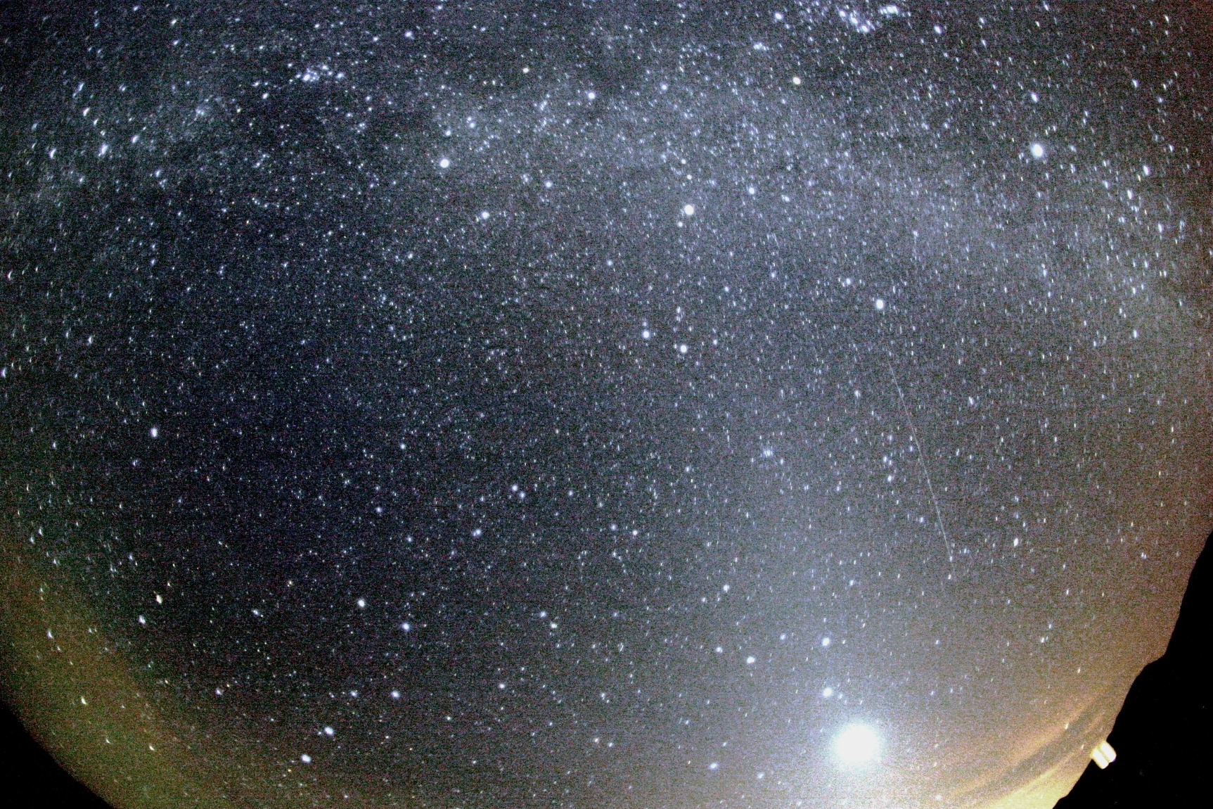 Orionid meteor striking the sky below Milky Way and to the right of Venus. Zodiacal light is also seen at the image The trail of the meteor appears slightly curved due to edge distortion in the lens